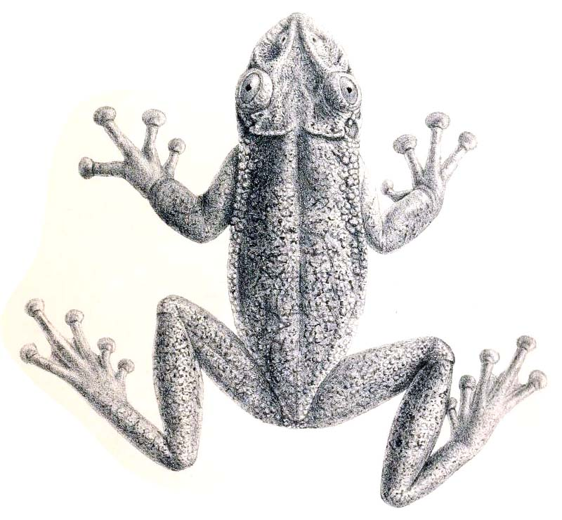 Corythomantis greeningi Boulenger, 1896 from Boulenger, G. A. 1896. Descriptions of new batrachians in the British Museum. Annals and Magazine of Natural History, Series 6, 17: 401–406.